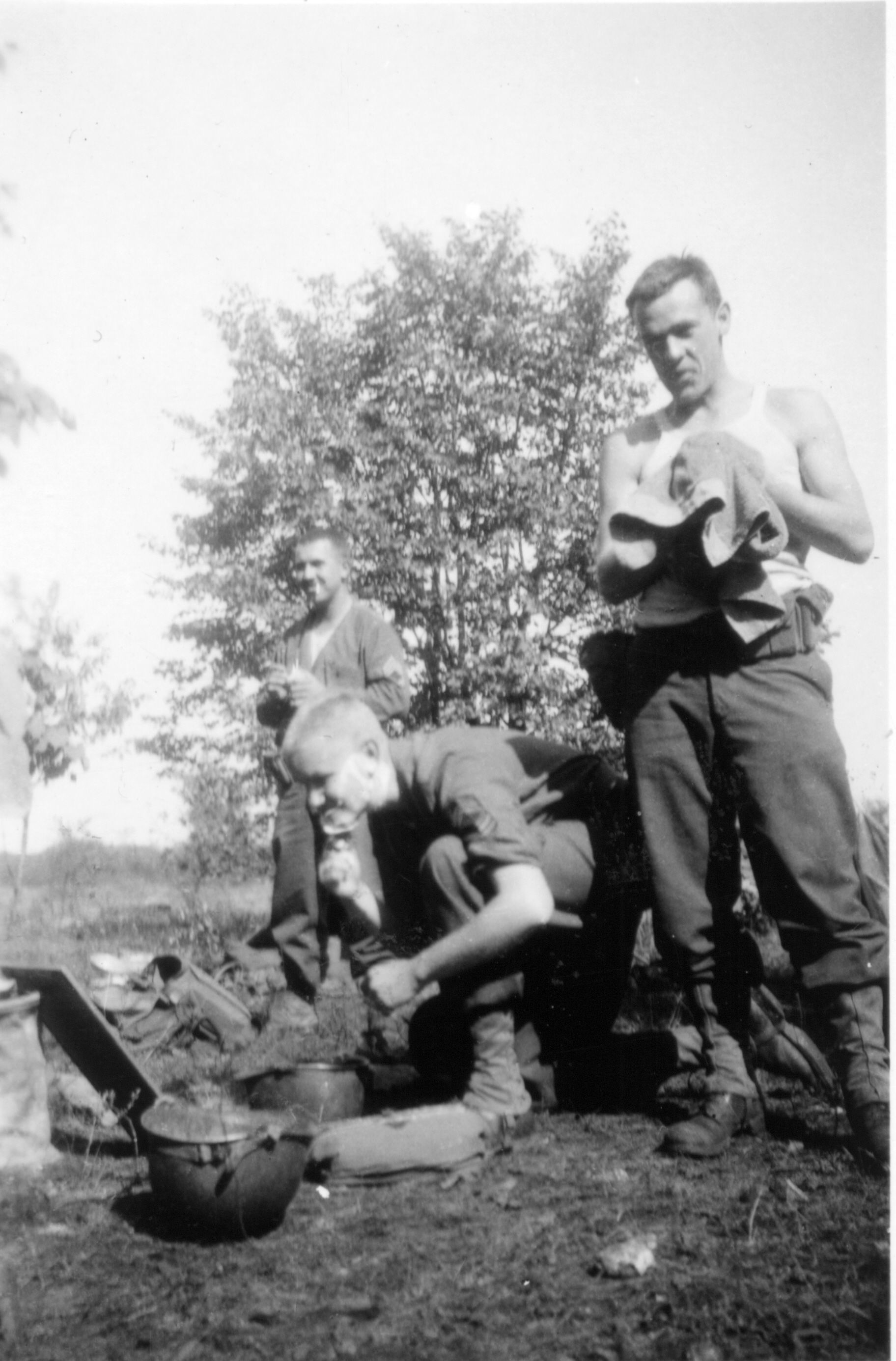 US Army 1139th Engineer Combat Group Troops bivouacked near Melun, France, August 23, 1944